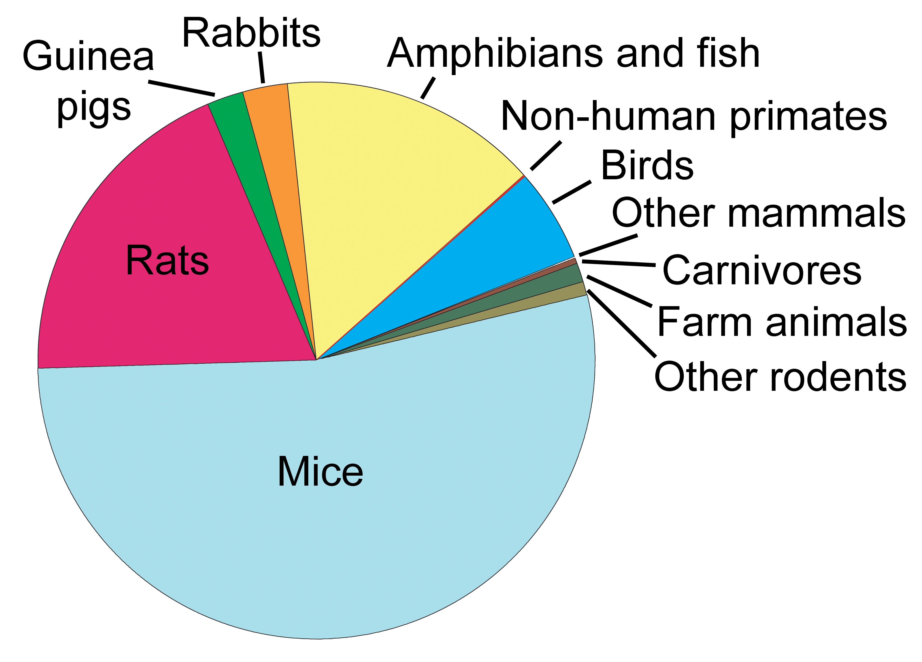 The types of vertebrate animals used in lab research in Europe in 2005